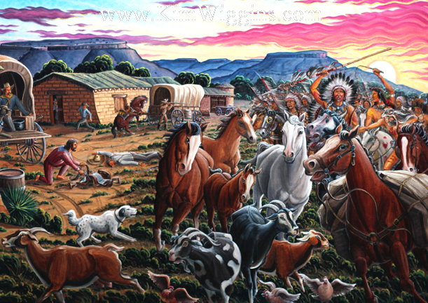 Renowned artist, Kim Douglas Wiggins, study of the Second Battle of Adobe Walls